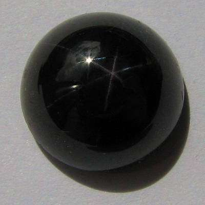 a six-rayed Idaho star garnet cabochon